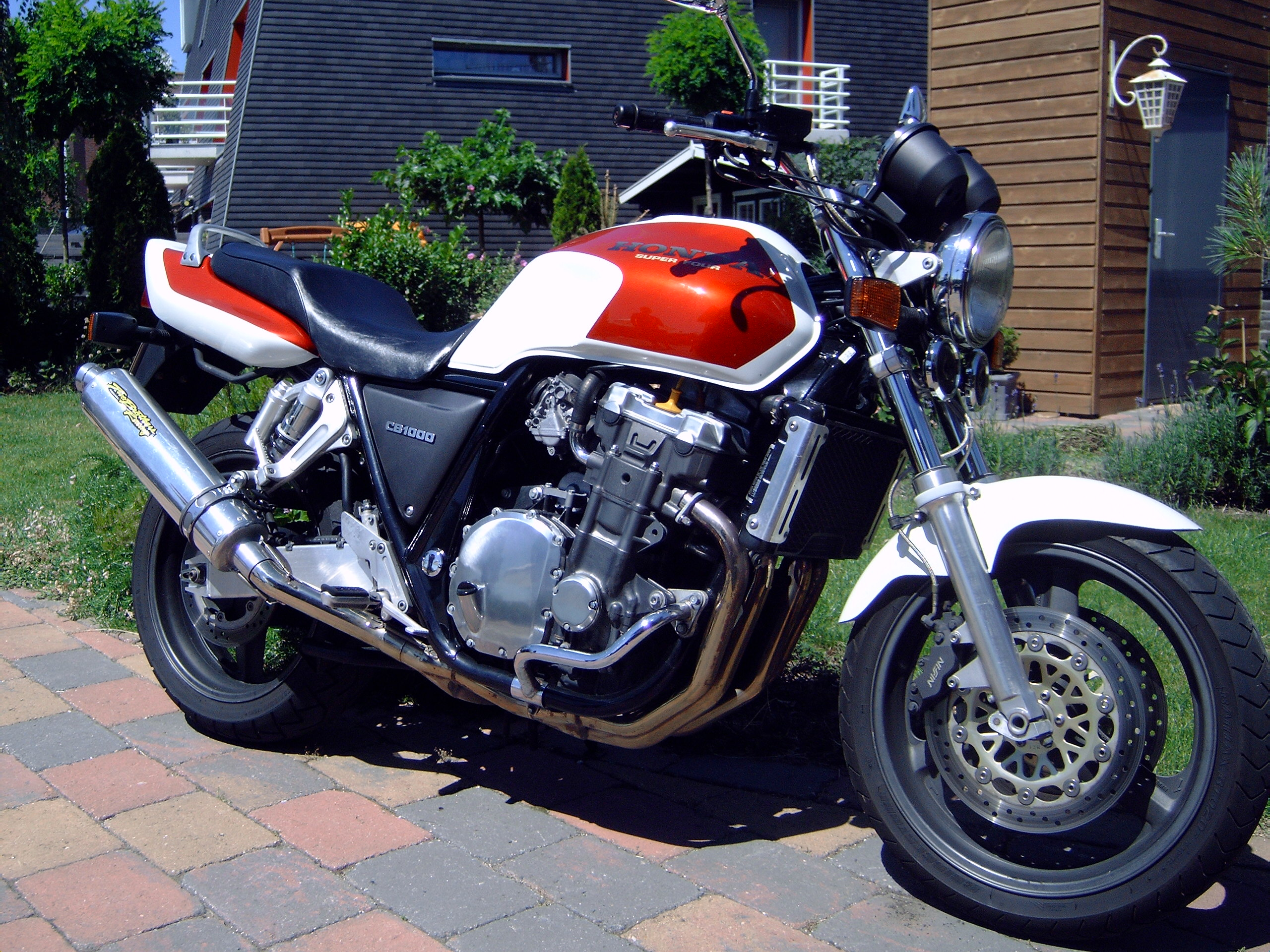 Honda CB1000 Big One 1993 10 years before the naked hype!!